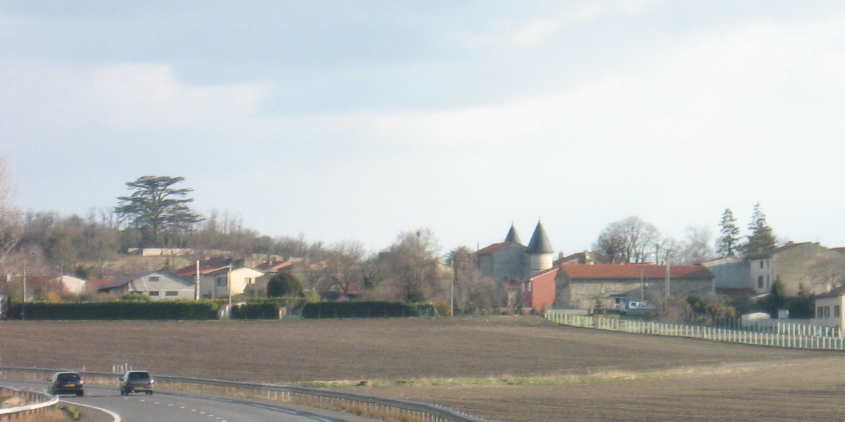 Authezat, Puy-de-Dôme